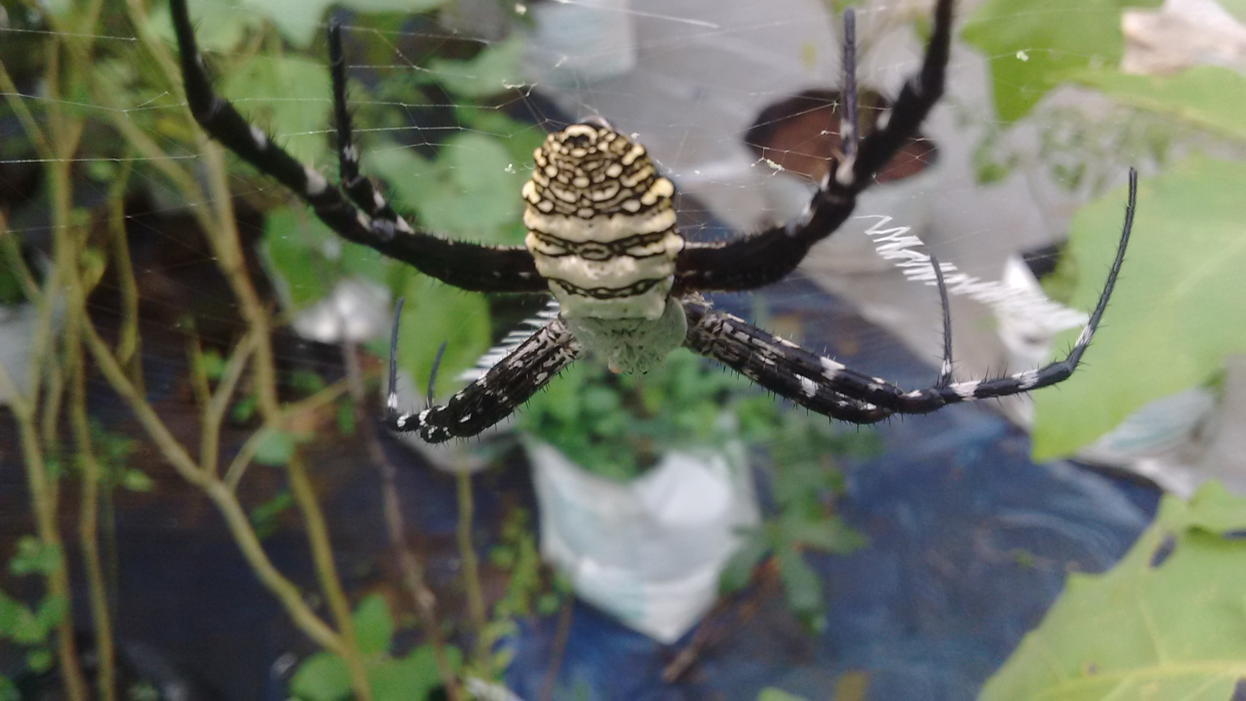 ആർഗിയോപി